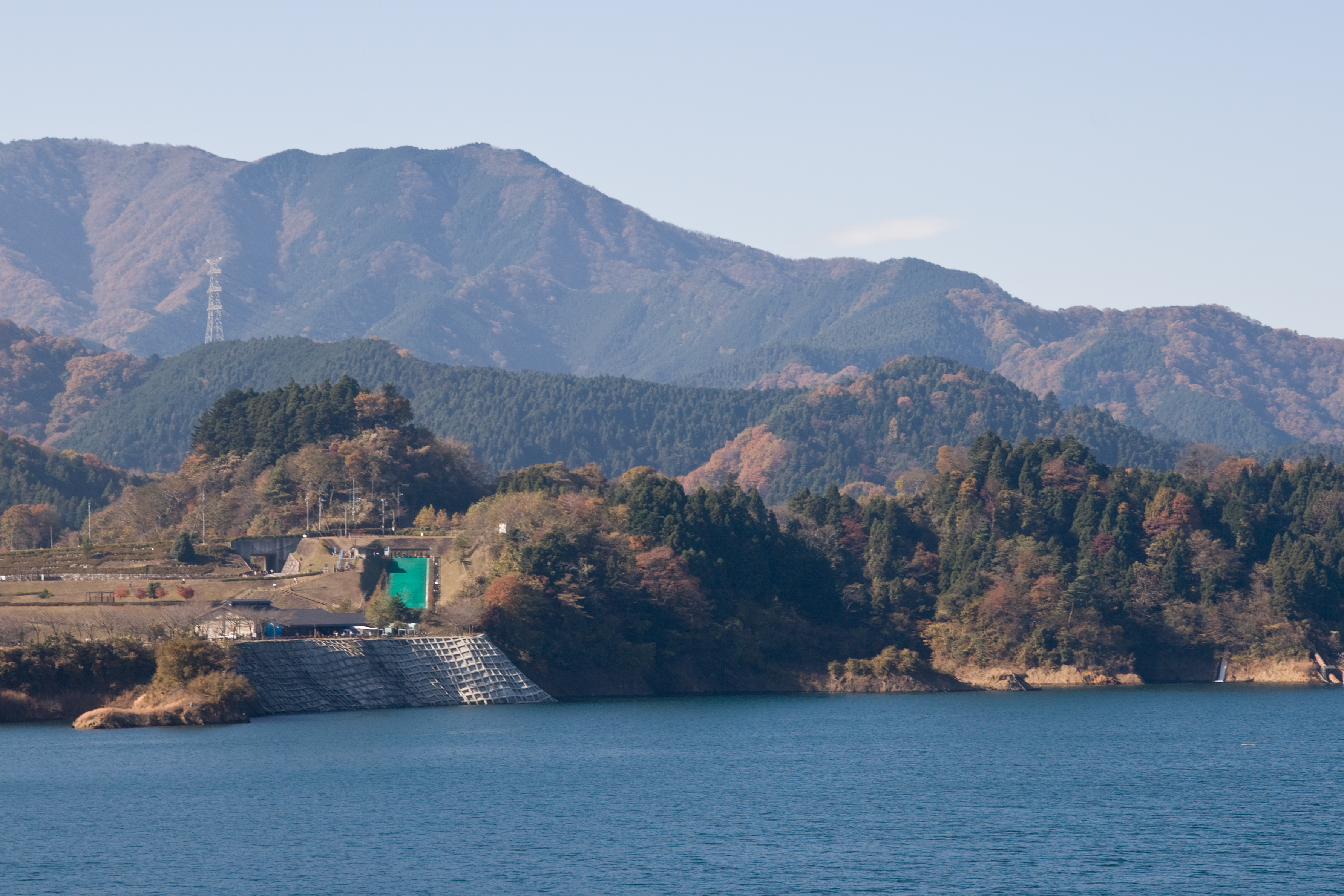 Lake Miyagase and Mt.Yake (Yake-yama), Kanagawa, Japan.